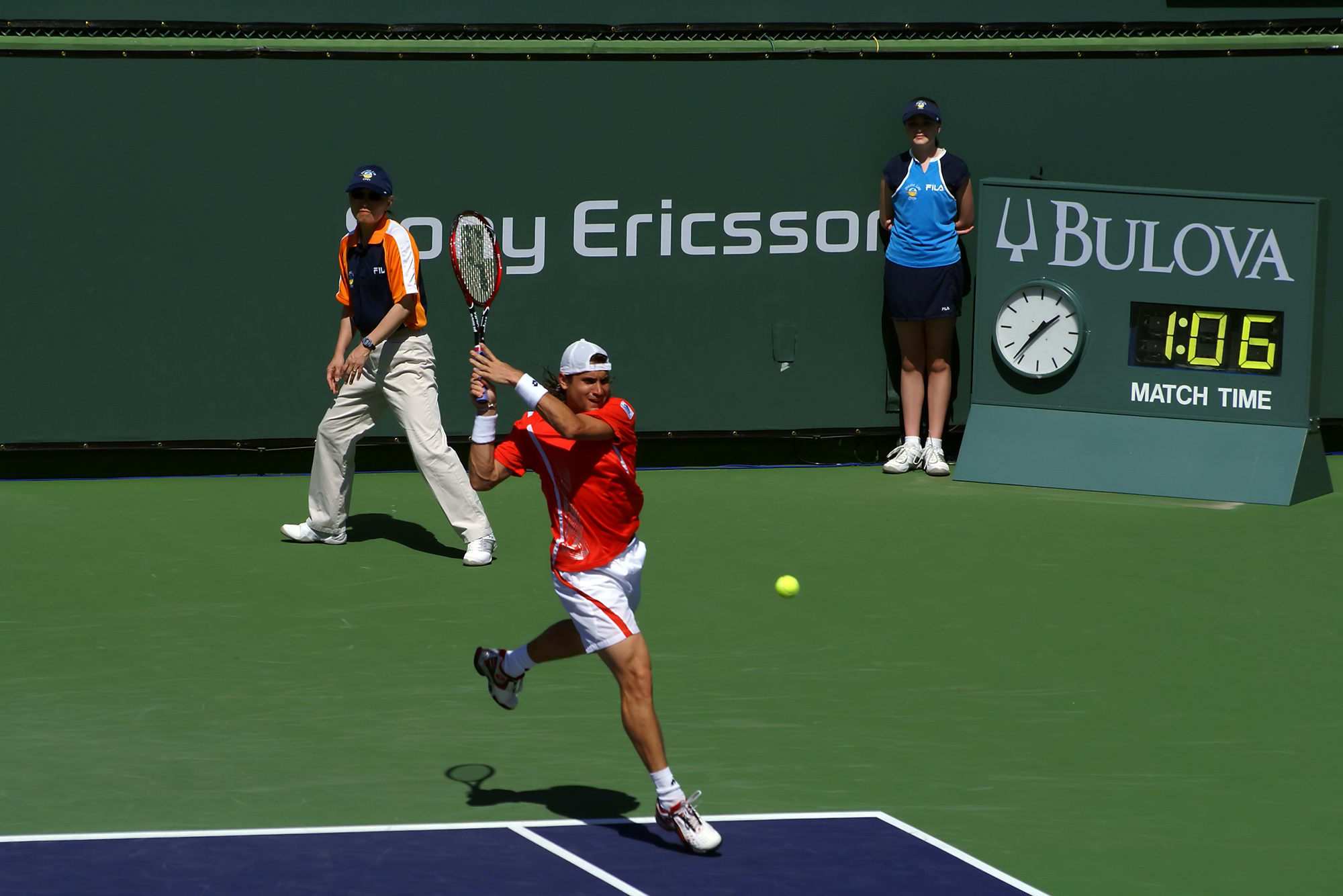 David Ferrer hits a running backhand in his match against Olivier Rochus at the 2008 Pacific Life Open.